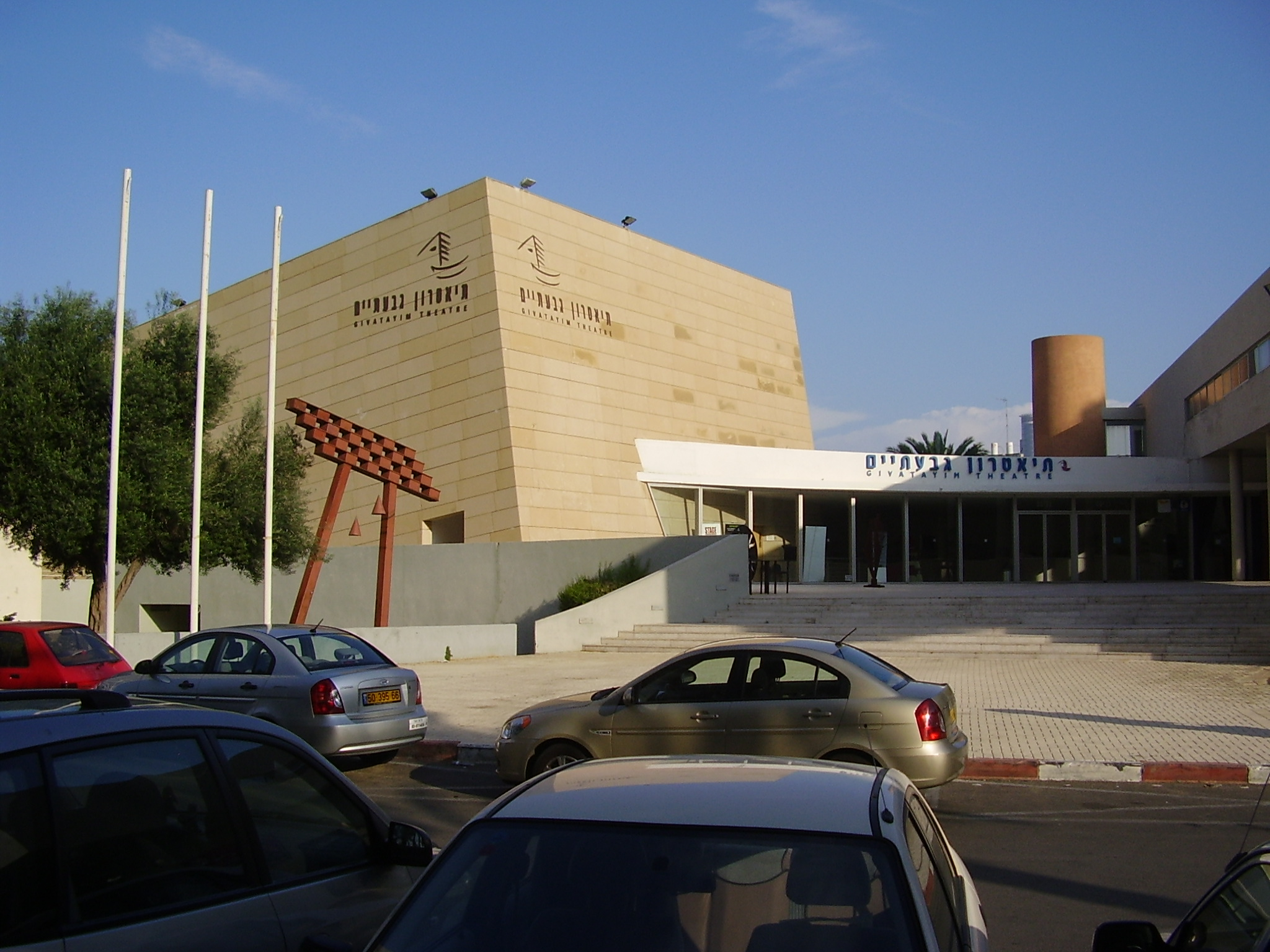 givataym theatre